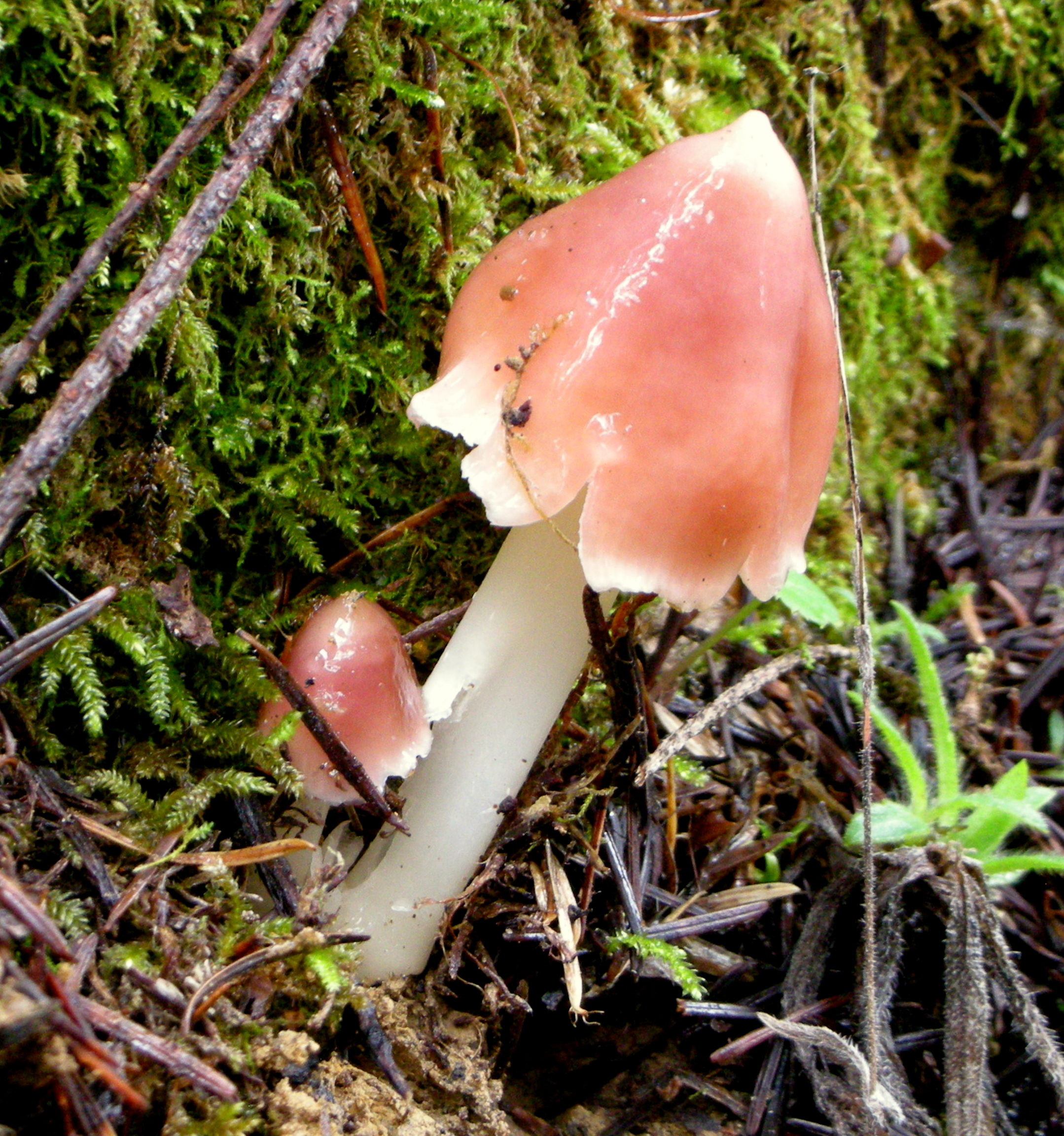 Porpolomopsis calyptriformis (Berk.) Bresinsky Image location: Jackson Demonstration State Forest, Mendocino Co., California, USA Recognized by sight For more information about this, see the observation page at Mushroom Observer.